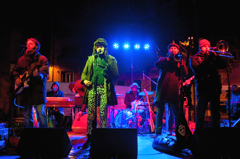 Koncert Jinxa